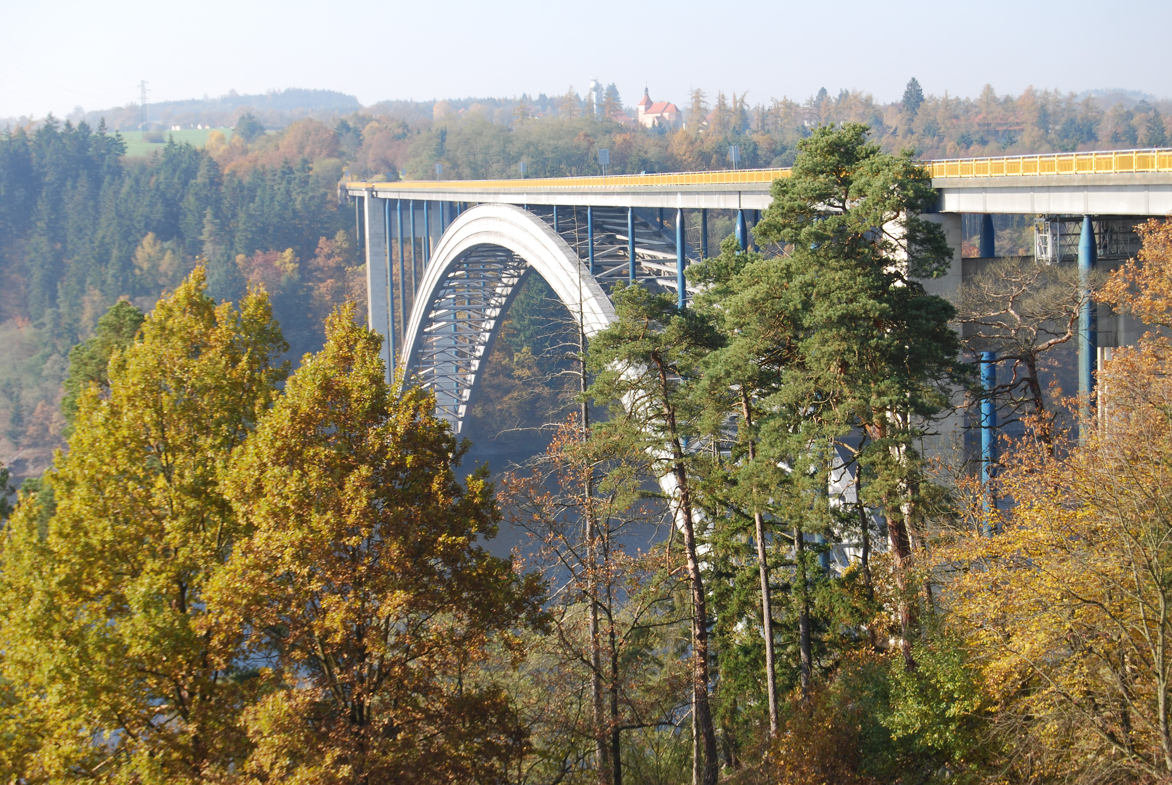 Žďákovský bridge in Písek District, Czech Republic